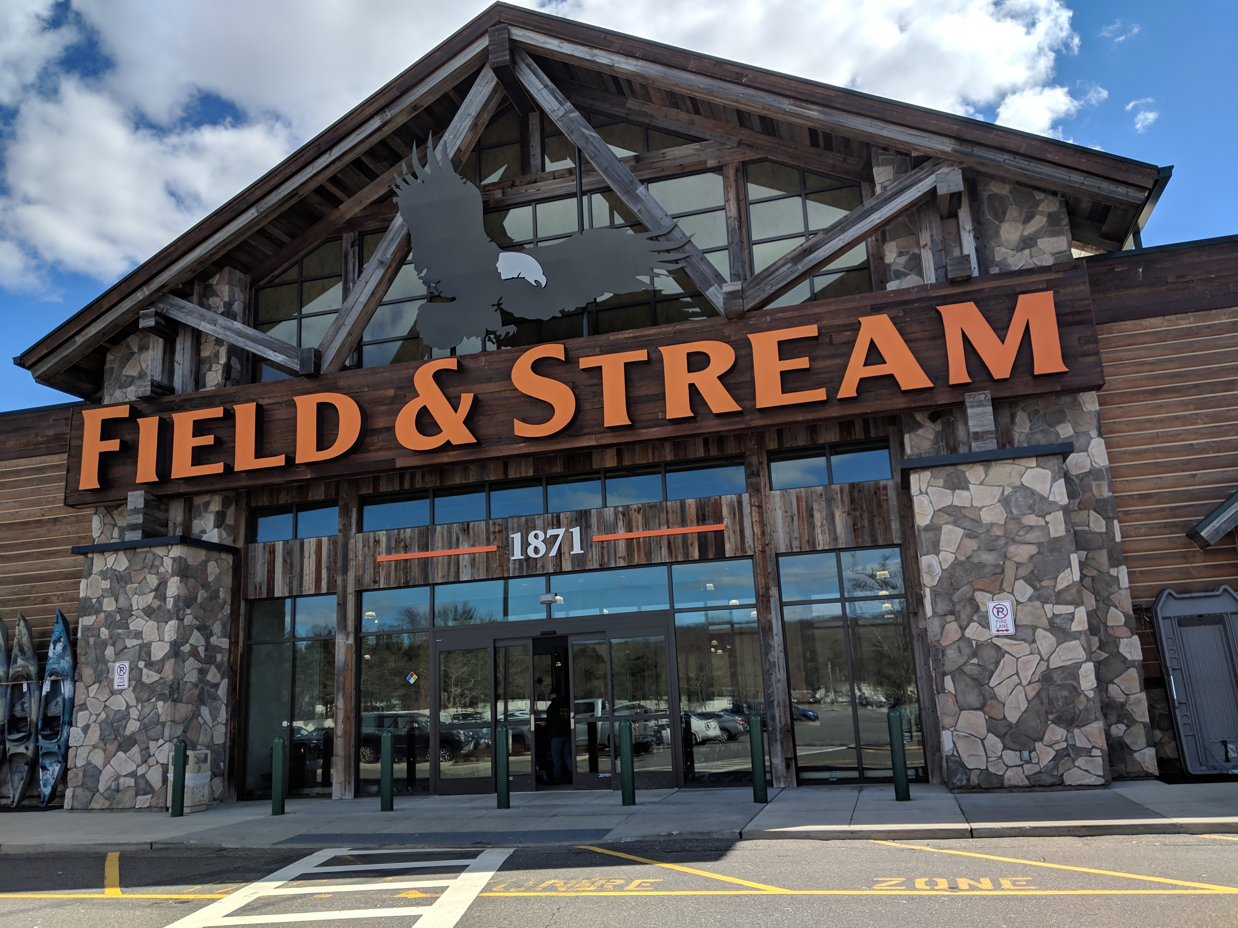 A Field & Stream location in Melville, New York. Taken on March 16, 2019.